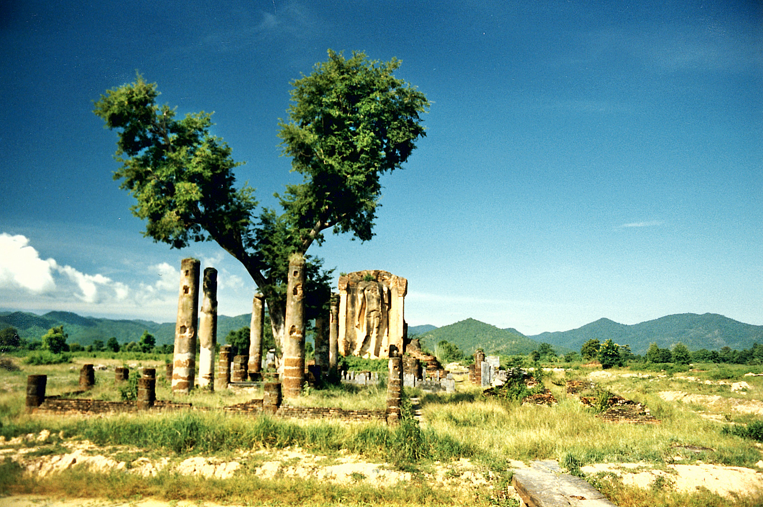 Wat Chetuphon, Sukhothai Historical Park, Thailand.